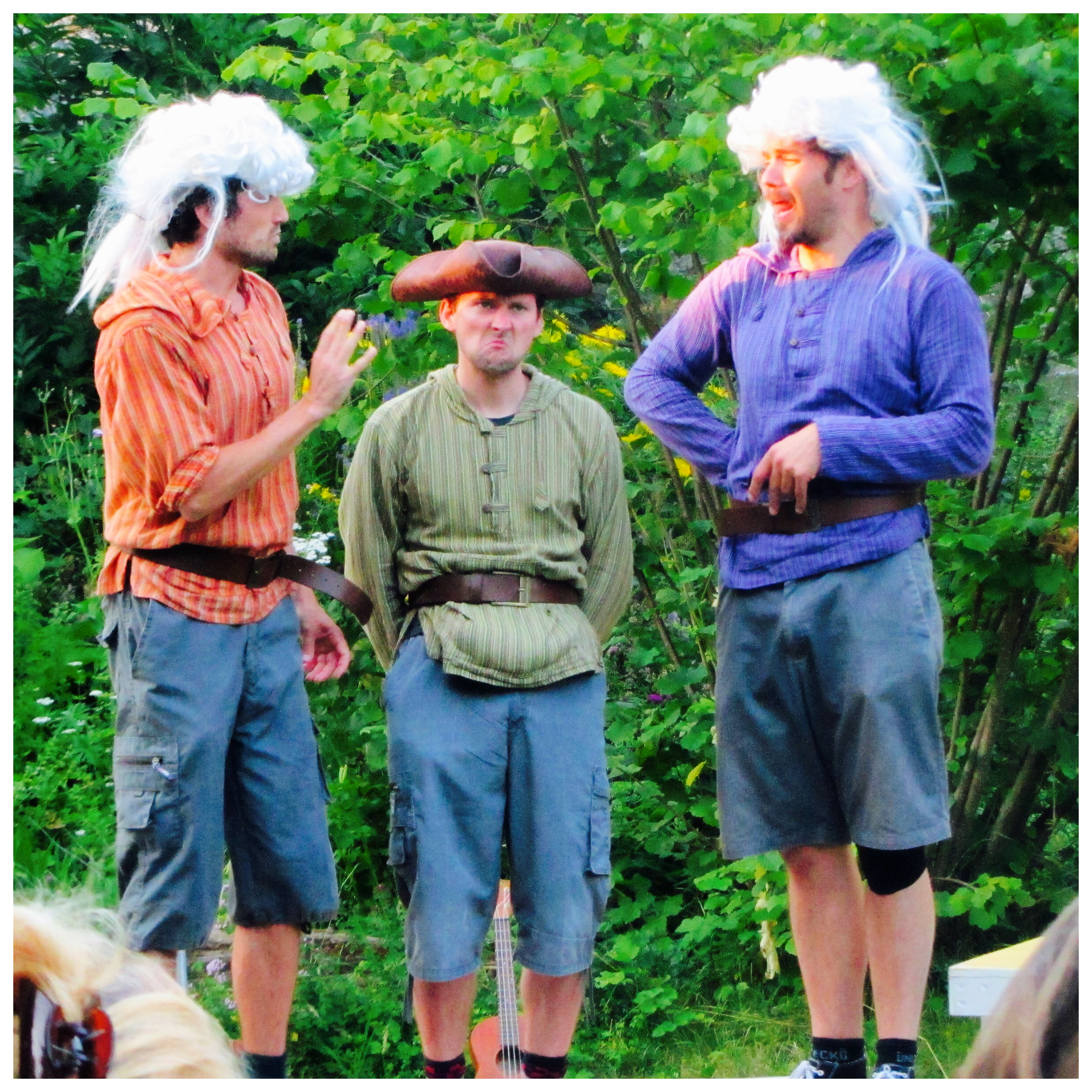 Amateur photo showing scene from The Pantaloons' production of Treasure Island taken at Washington Old Hall, Summer 2015. Actors from left to right are Samuel John, Chris Coxon, Louis Labovitch